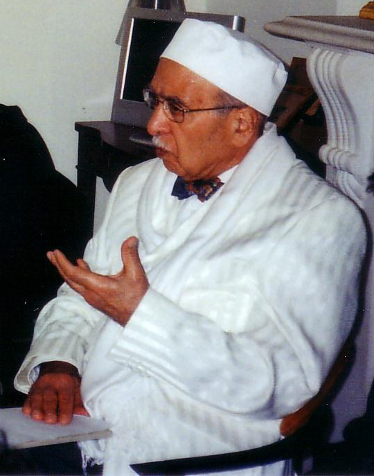 Dr Farhang Mehr